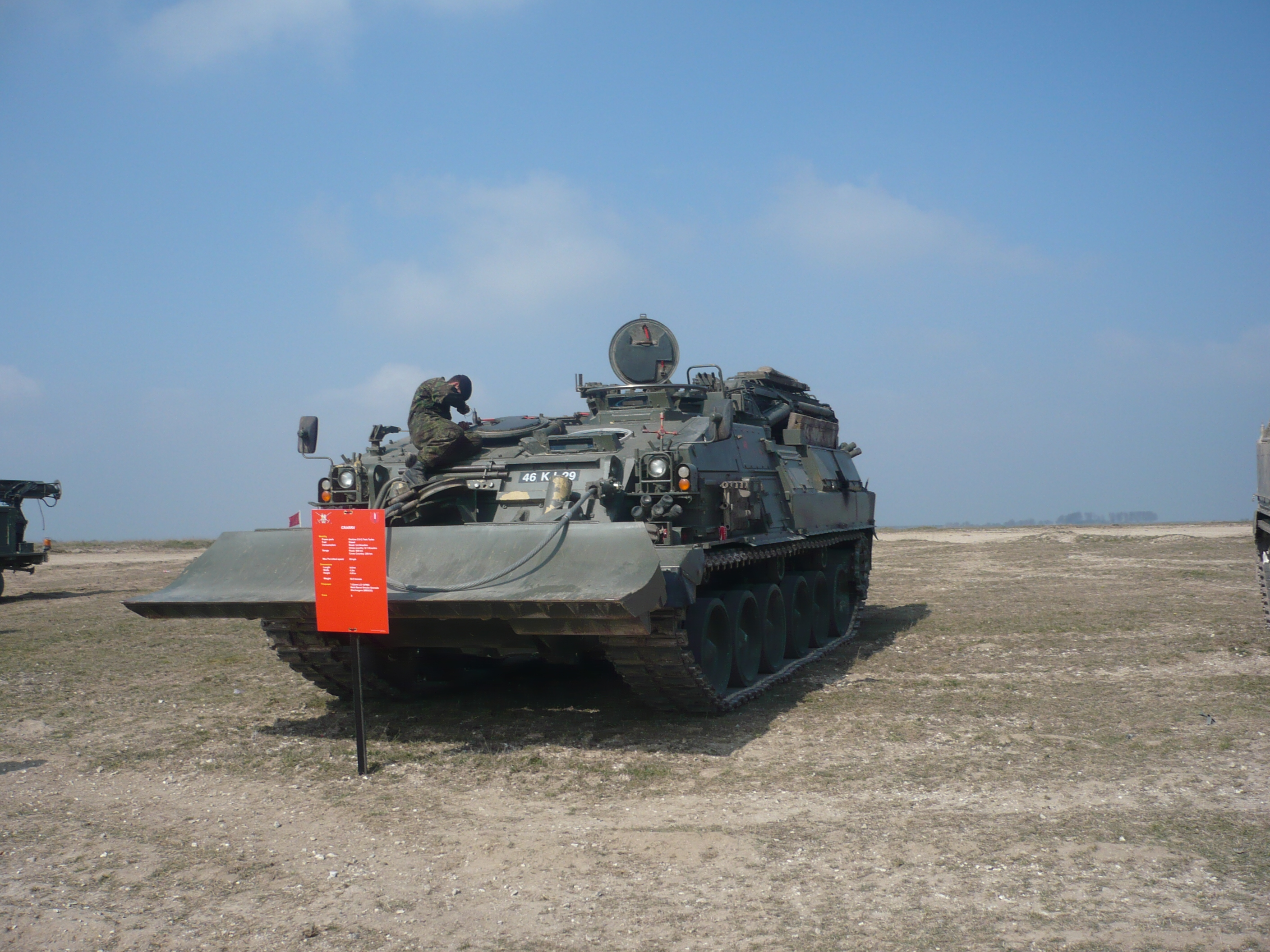 CRARRV on display at the CAFD, Land Warfare Centre